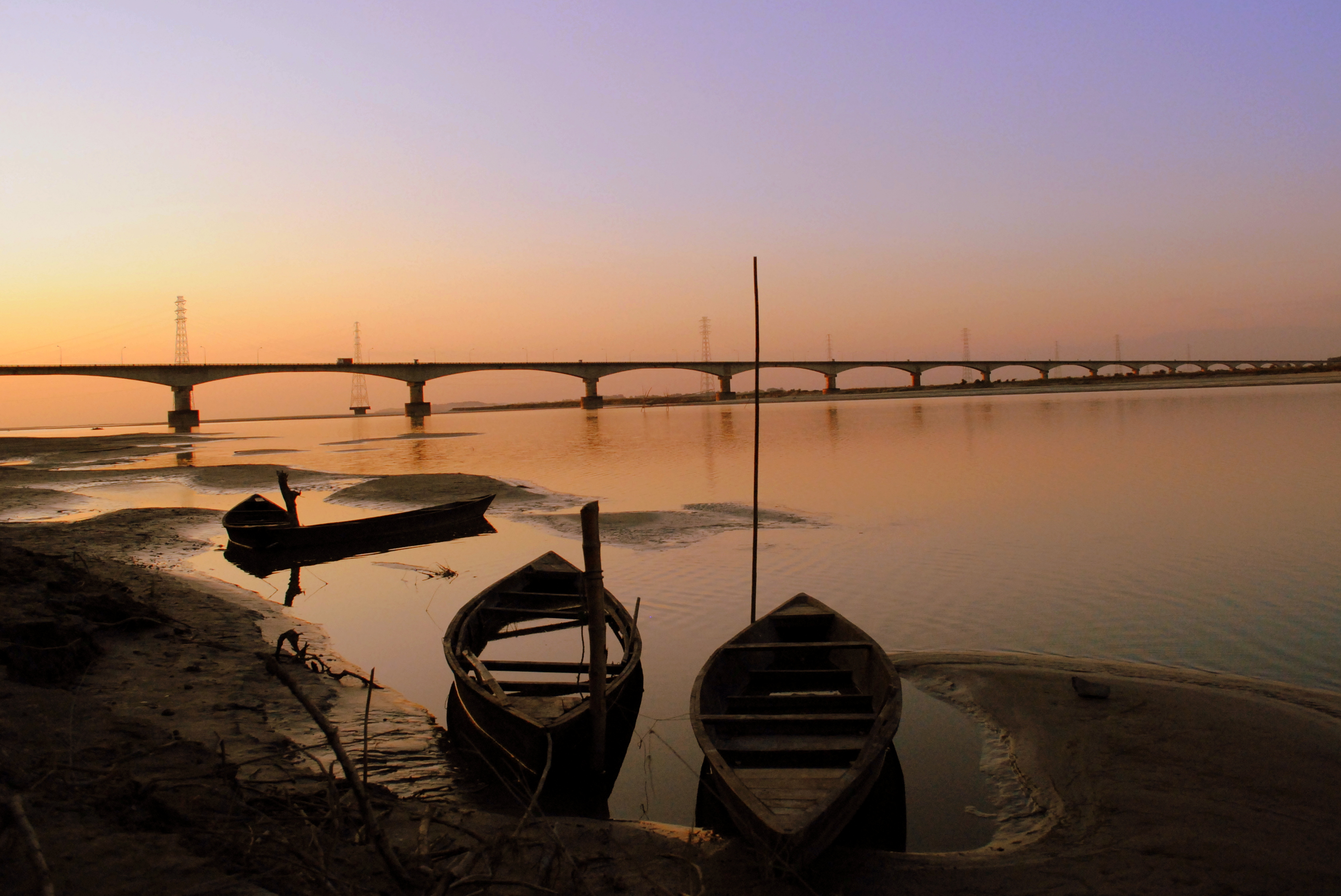 Kolia Bhomora Setu over the Brahmaputra river in Assam state of India.